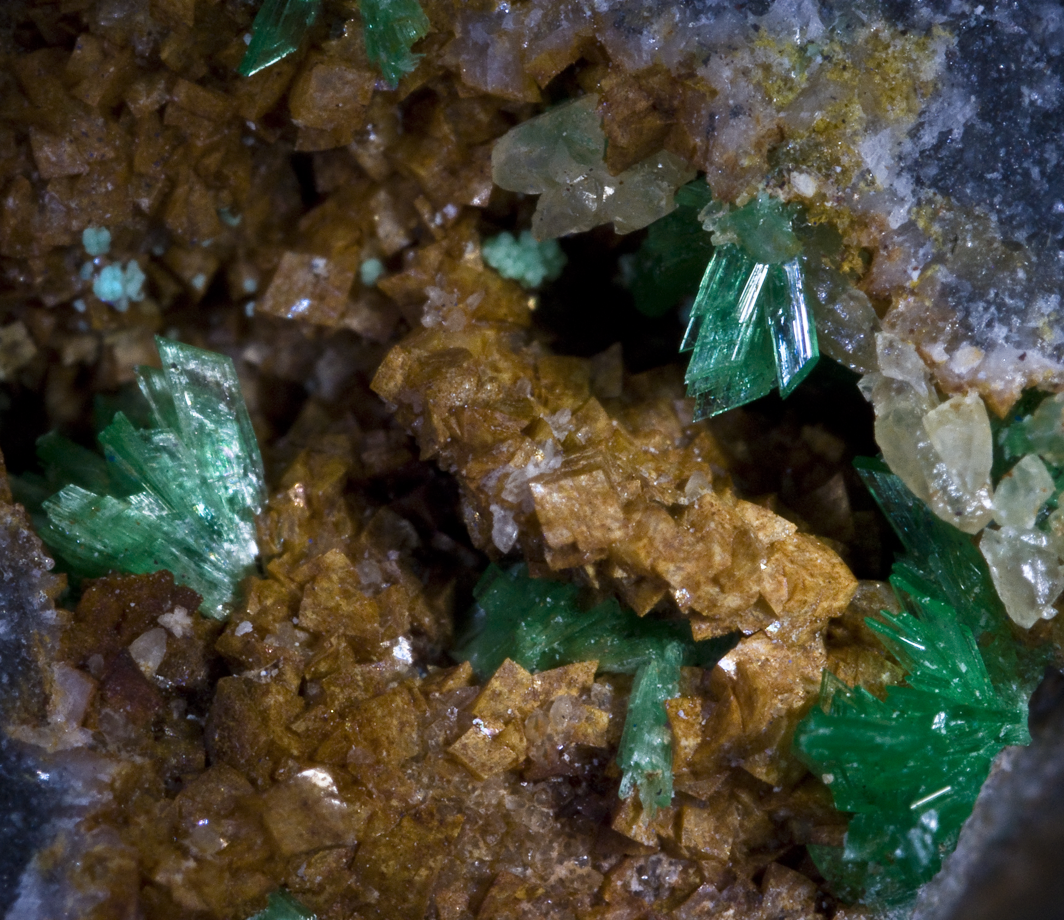 Annabergite Locality: Km-3 Mine, Lavrion Mines, Lavrion (Laurion; Laurium), Lavrion District Mines, Lavrion (Laurion; Laurium) District, Attikí (Attica; Attika) Prefecture, Greece Size : View 2.5 cm - Crystal 0.32cm